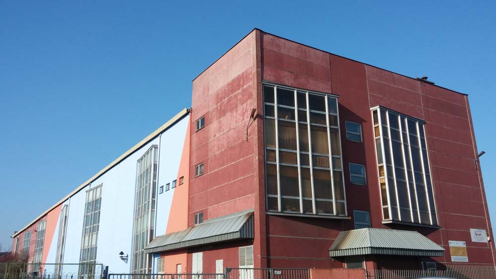 Hydrotorbis production hall